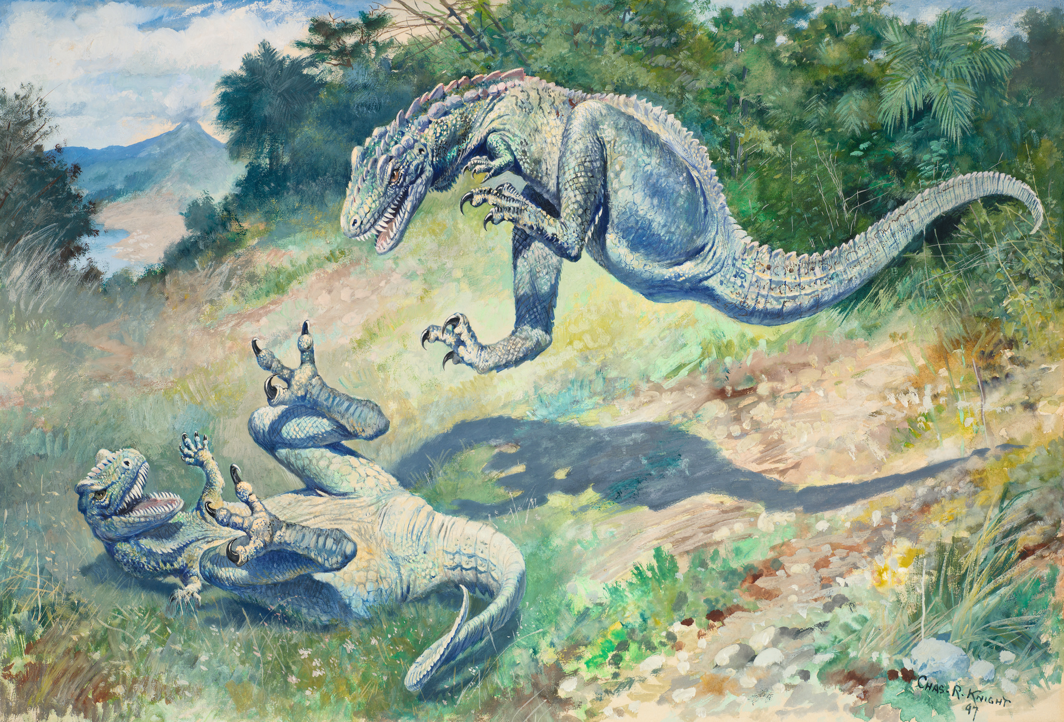 Leaping Laelaps - Two Laelaps/Dryptosaurus fighting.